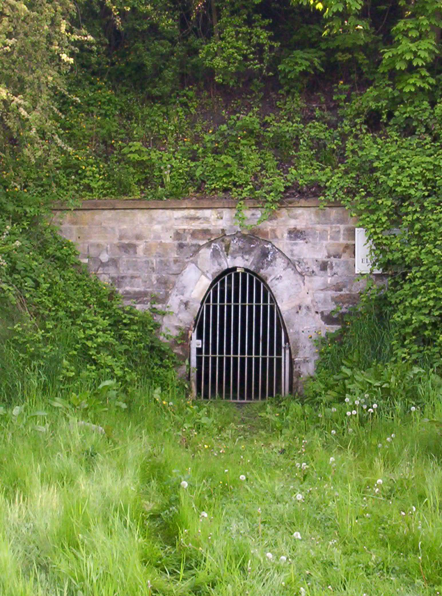 Mouth of the "Tiefer Elbstolln" adit in Dresden, Saxony, Germany. This adit was built between 1817 and 1837 as a drainage adit for the Doehlen coal mines. It is about 6.500 meters long from its mouth in the north to the south.